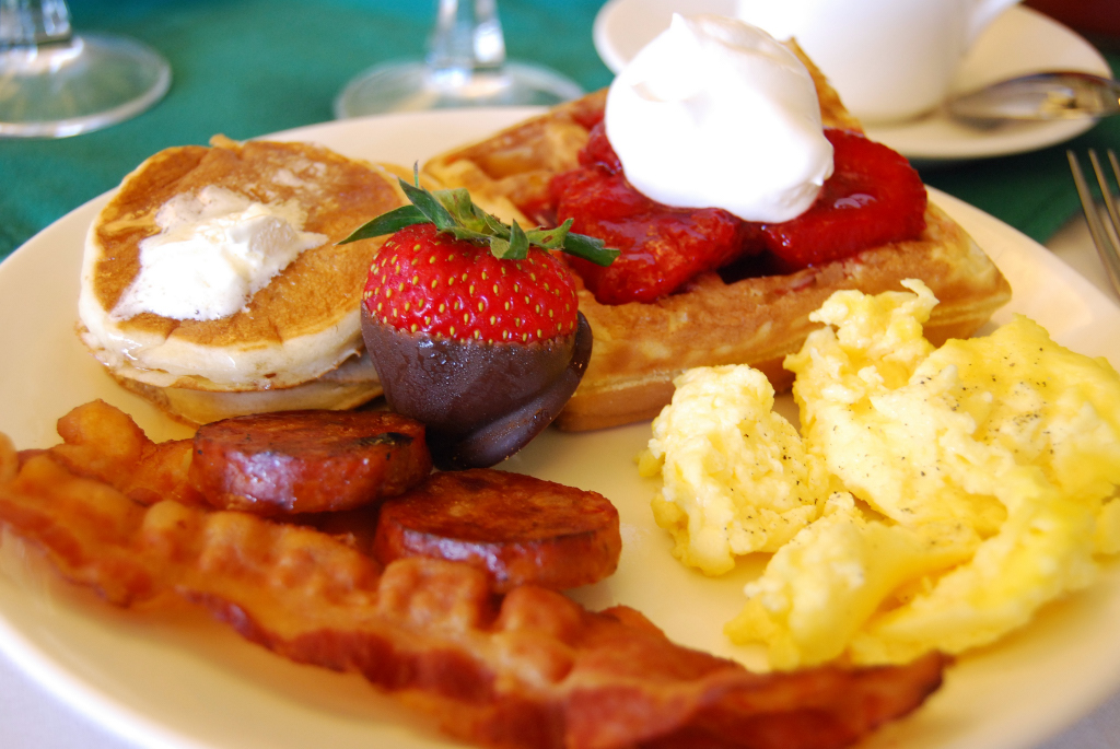 breakfast!